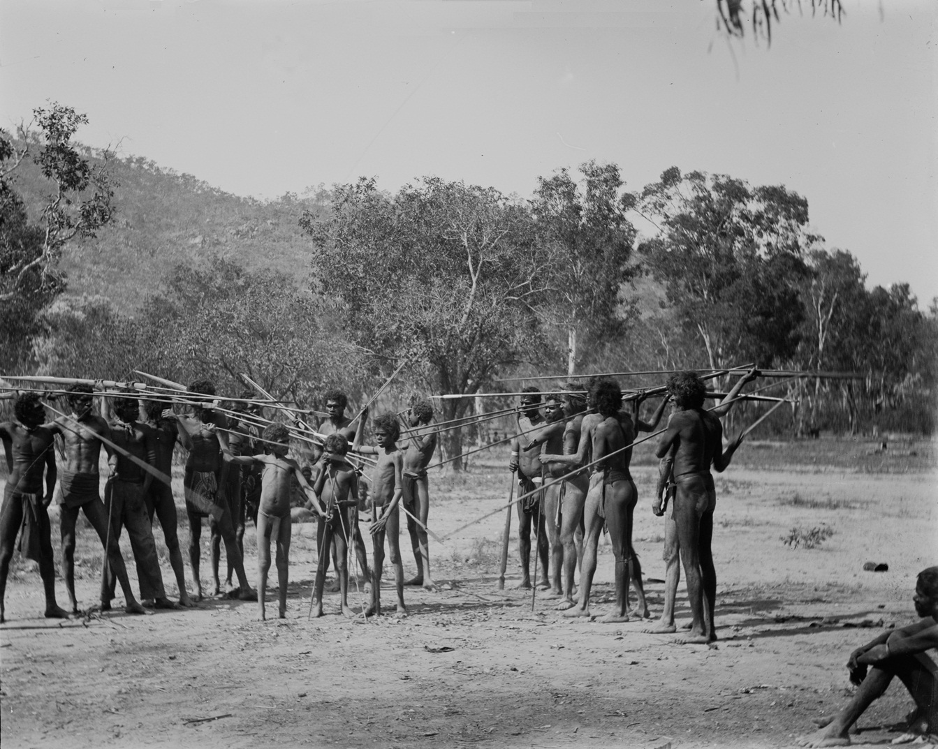 Men, possibly of the Wogait people, Anson Bay, Northern Territory probably 1905. Original caption: “Preparing for an emu hunt”